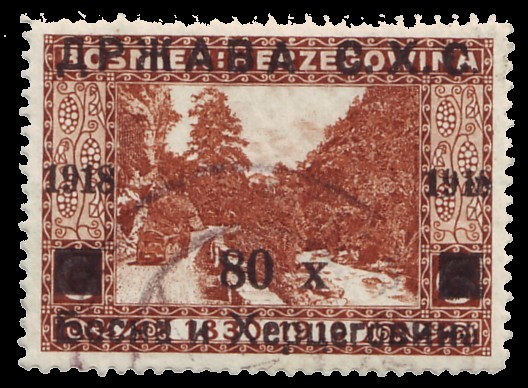 80 heller on 6 h, DRŽAVA S.H.S. 1918 Overprint on a Bosnian stamp, for use in the new State of Serbs, Croats and Slovenes, Bosnia and Herzegovina region, issued 11 November 1918, Michel N°11.